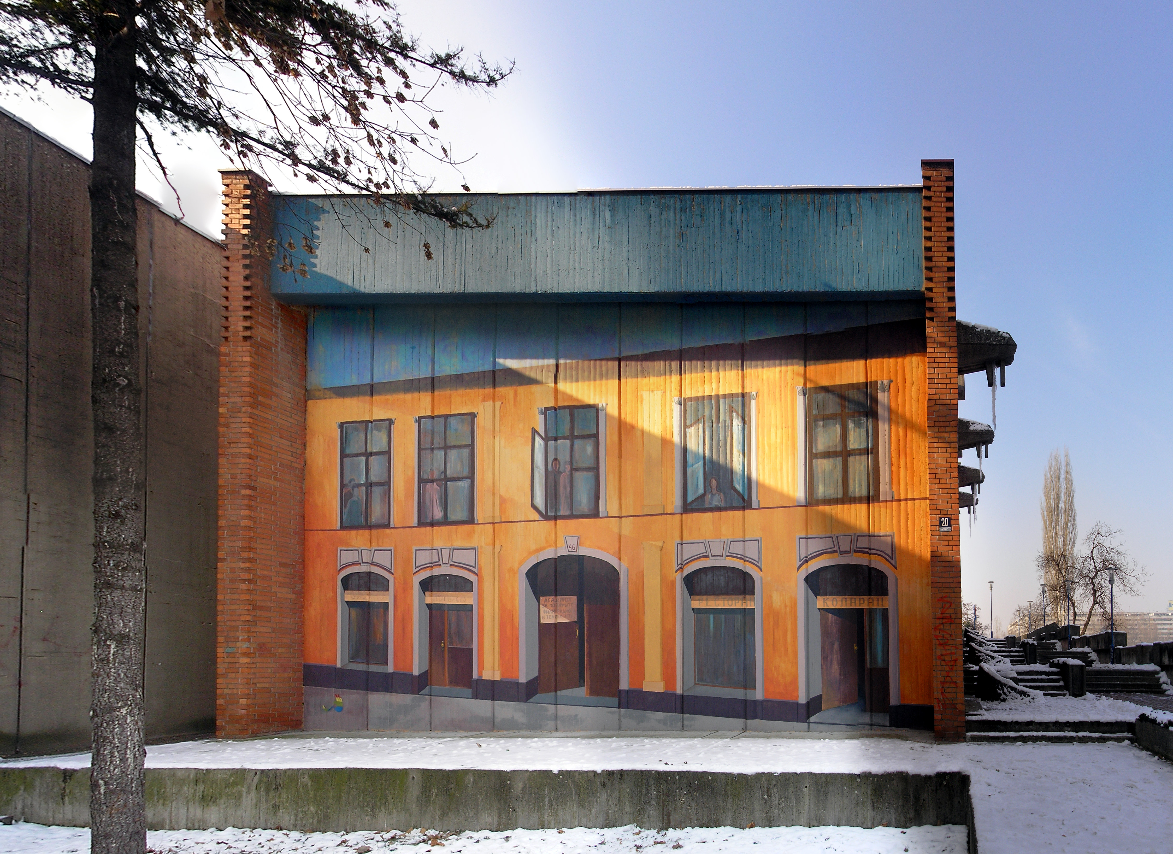 Faculty of Dramatic Arts in Belgrade - A detail painted on a wall. Series of photos brought together in Hugin.